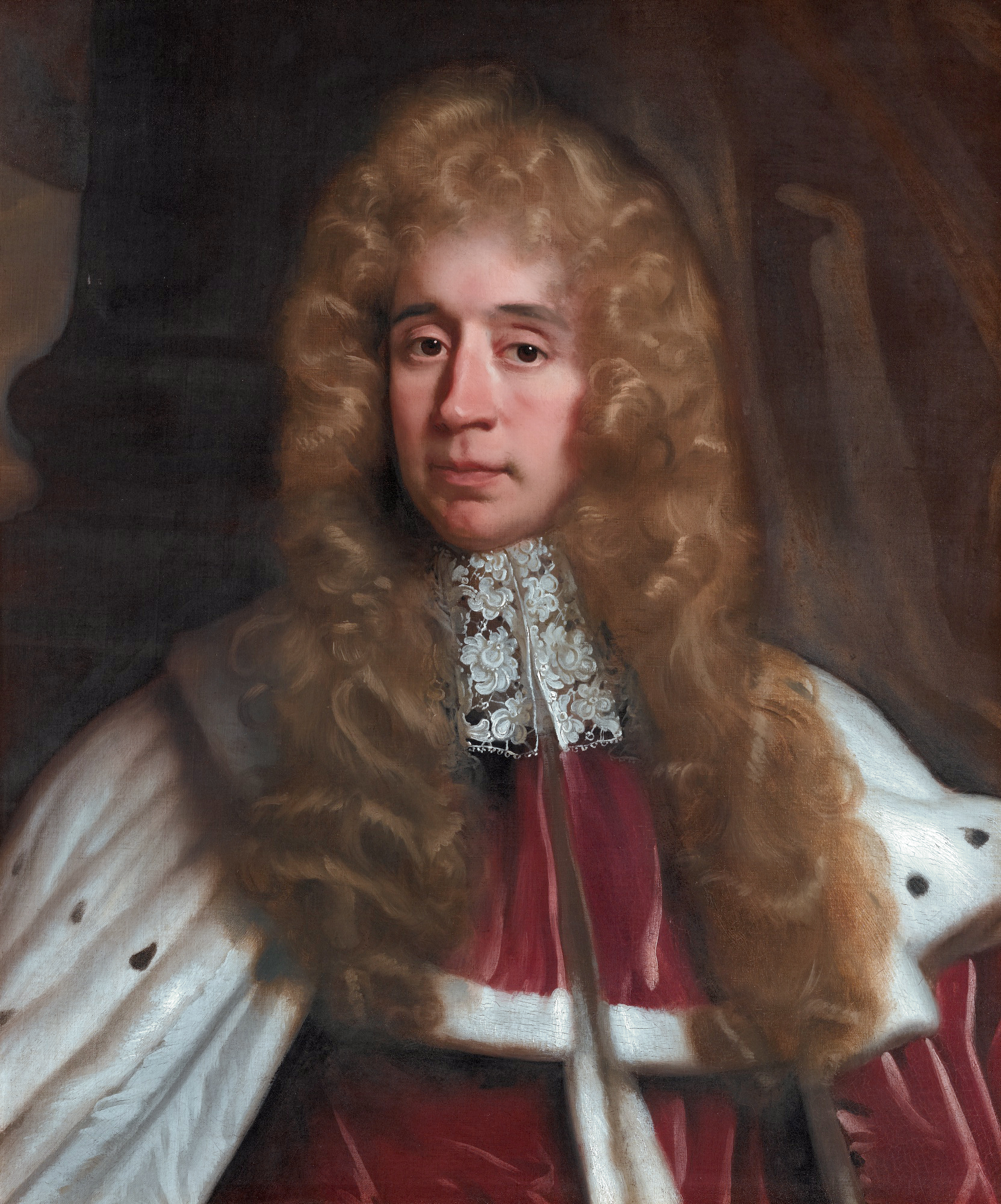 George Jeffreys, 1st Baron Jeffreys of Wem, Judge Jeffreys (1645–1689)